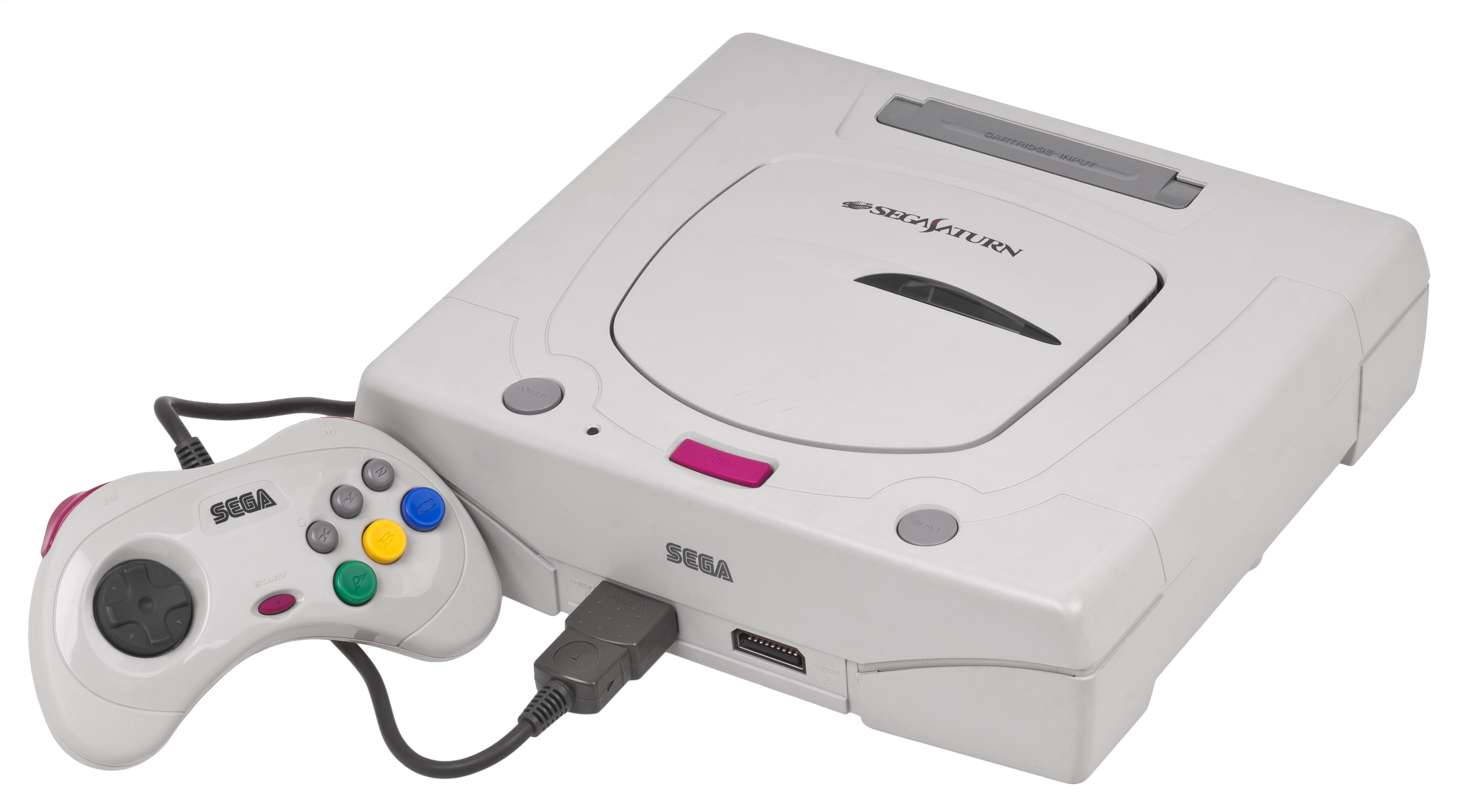 A Japanese Sega Saturn. This is the second version of the hardware that is white and has round power and reset buttons.